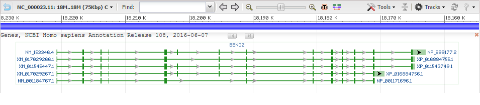 This is a screenshot of the NBCI Gene page for BEND2 showing the mRNA transcripts of BEND2, with both the intron and exon regions.